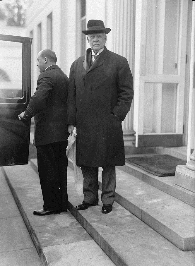 Isaac R. Sherwood, congressman from Ohio, Mayor of Toledo, Ohio, Ohio Secretary of State and Union Army General.